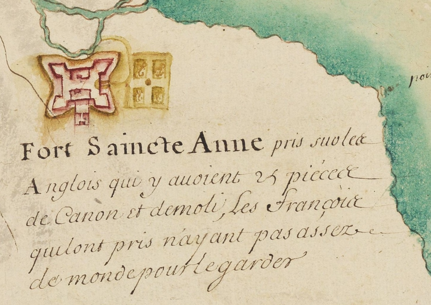 The Albany fort, in James Bay, after it was taken by the French in July 1686. Translation: « Fort Sainte-Anne, taken from the English who had 25 pieces of cannon and demolished. The French who captured him did not have enough people to keep him » (The Fort has been renamed Fort Sainte-Anne). Dedicated to Monsignor Marquis de Seignelay (Minister of the Navy). Detail of a map published in 1687 to illustrate the expedition made in 1686 by the French to seize the English forts in the south of Hudson Bay (James Bay, fur trade). Map drawn from the drawings made by the geographer of the expedition, Pierre Allemand.